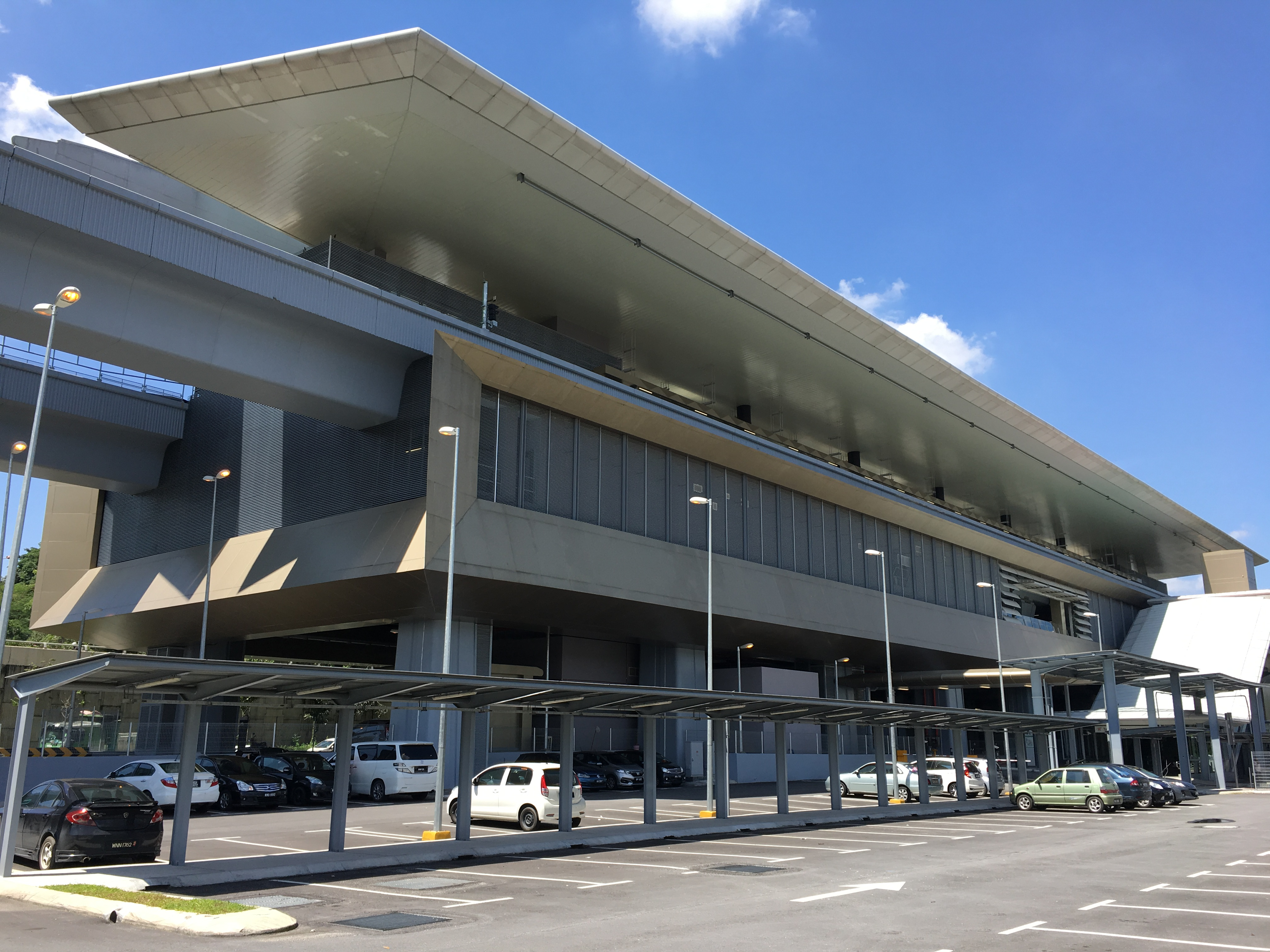 View of the station from the park and ride.